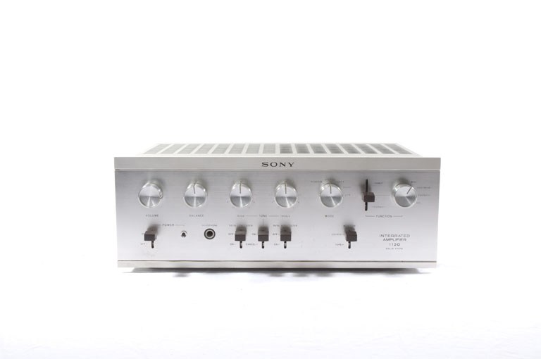 The Sony 1120 is an 120-watt, integrated amplifier with an all-silicon transistor. It includes bass and treble tone controls. 117V AC